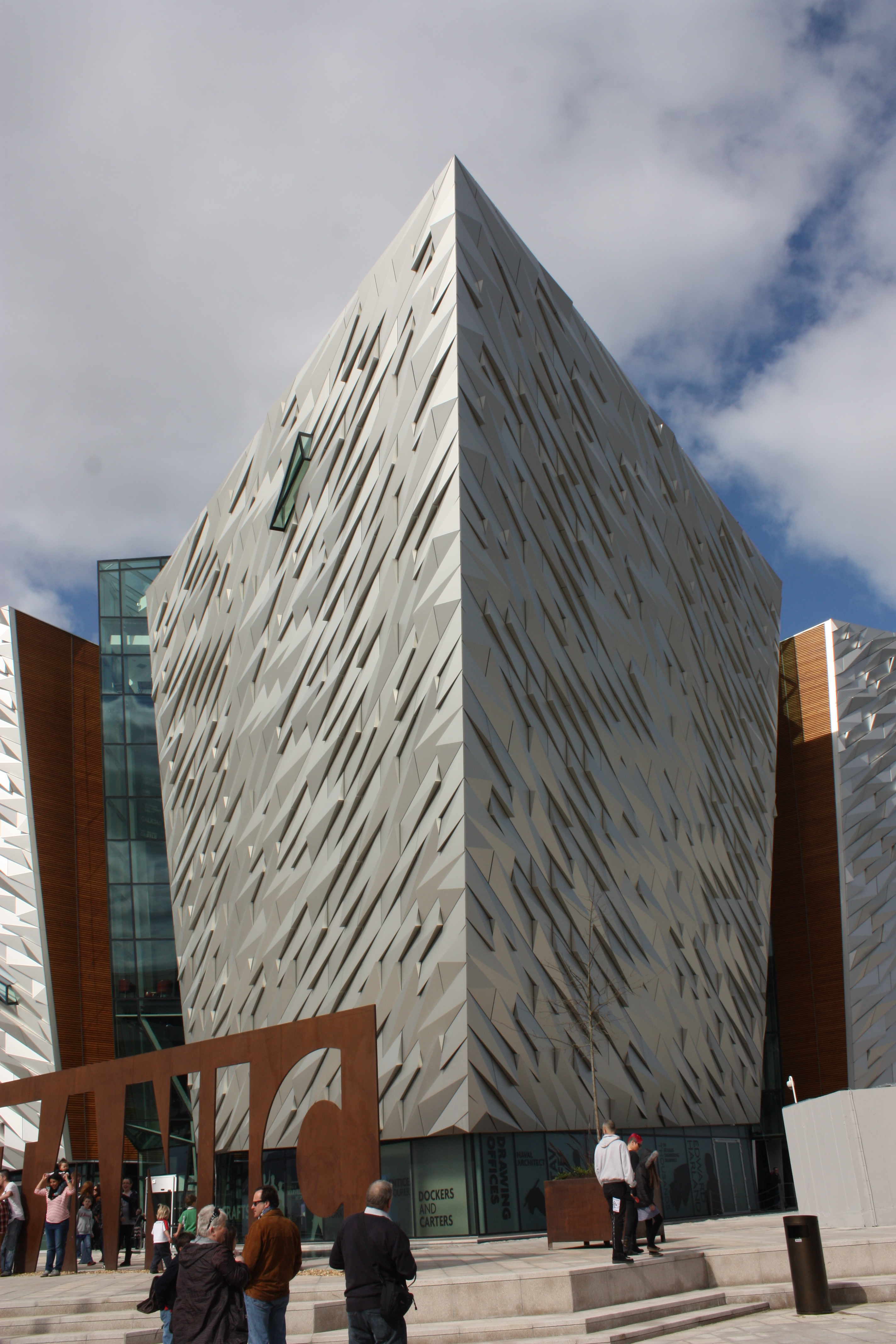 Opening Day at Titanic Belfast, Titanic Quarter, Queen's Road, Belfast, Northern Ireland, 31 March 2012